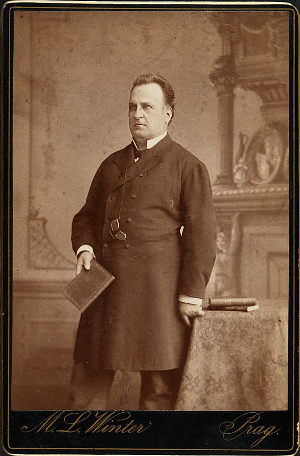 Ludwig von Ernest (1829-1912), Austrian actor, photograph by Moritz Ludwig Winter (1824-1899) from Prague